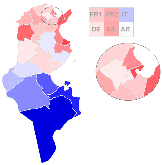 Results of the Tunisian parliamentary election 2014 by district. Red: Nidaa Tunes ahead, Blue: Nahda ahead. Shaded based on percent difference between the top two lists per district. Overseas districts: FR1: France 1 FR2: France 2 IT: Italy DE: Germany EA: Rest of Europe and Americas AR: Arab Countries and rest of World